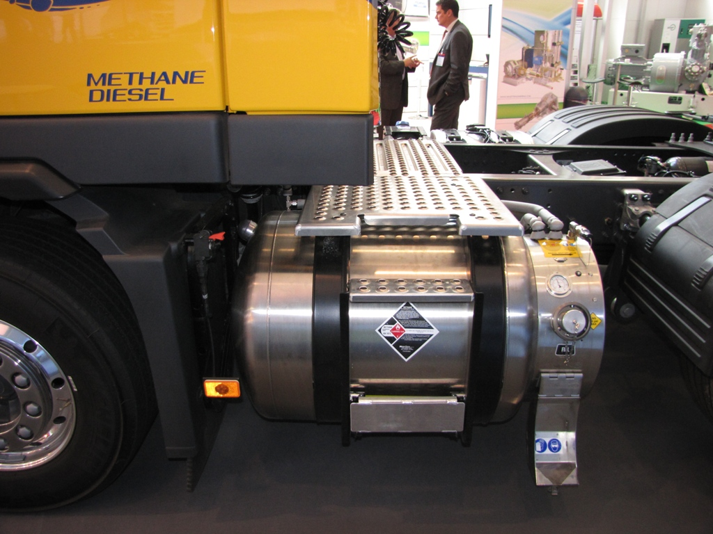 LNG tank installed on board of Volvo Fm Methane Diesel truck